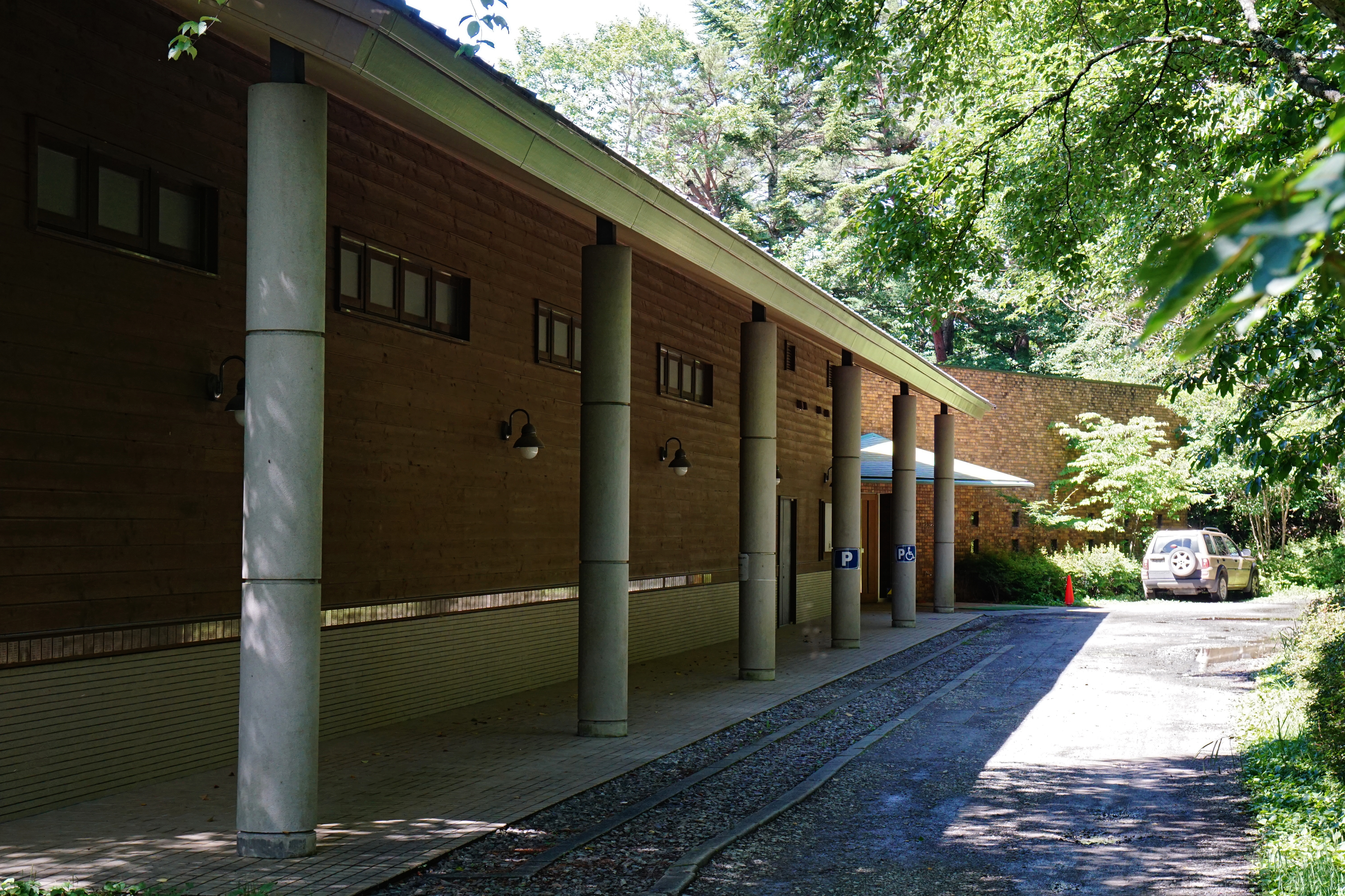 Paul Rusch Memorial Museum in Hokuto, Yamanashi prefecture, Japan.